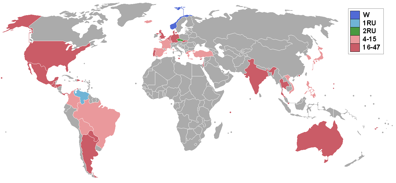 Miss International 1995 results map